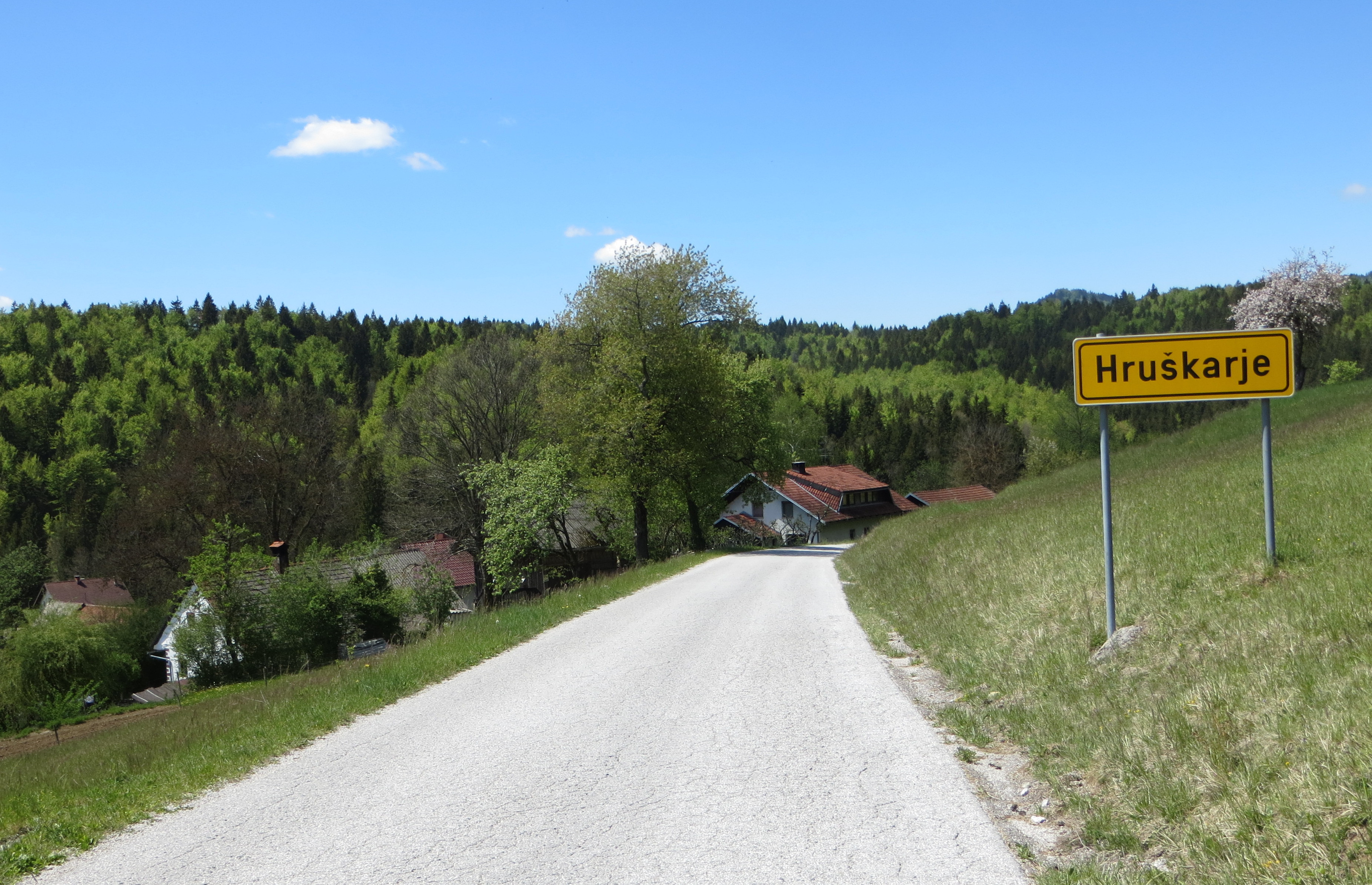 Hruškarje, Municipality of Cerknica, Slovenia